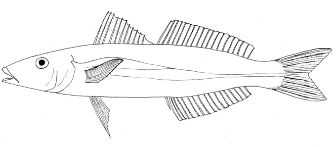 Hand drawn diagram of the Silver-banded whiting, Sillago argentifasciata. Diagram based on description of holotype (now destroyed) by Martin and Montalban (1935)